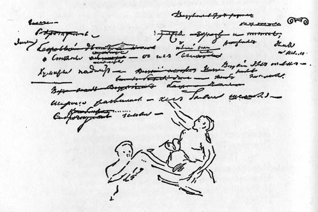 Autograph of Alexander Pushkin's poem "Vesuvius gaped its maw"